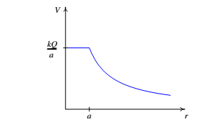 Potencial produzido por uma esfera condutora isolada.